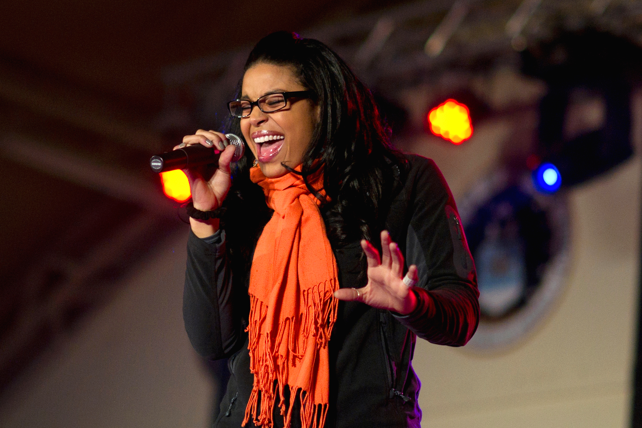 American Idol winner Jordin Sparks performs for troops during a USO show on Camp Buehring, Kuwait, December 14, 2011.